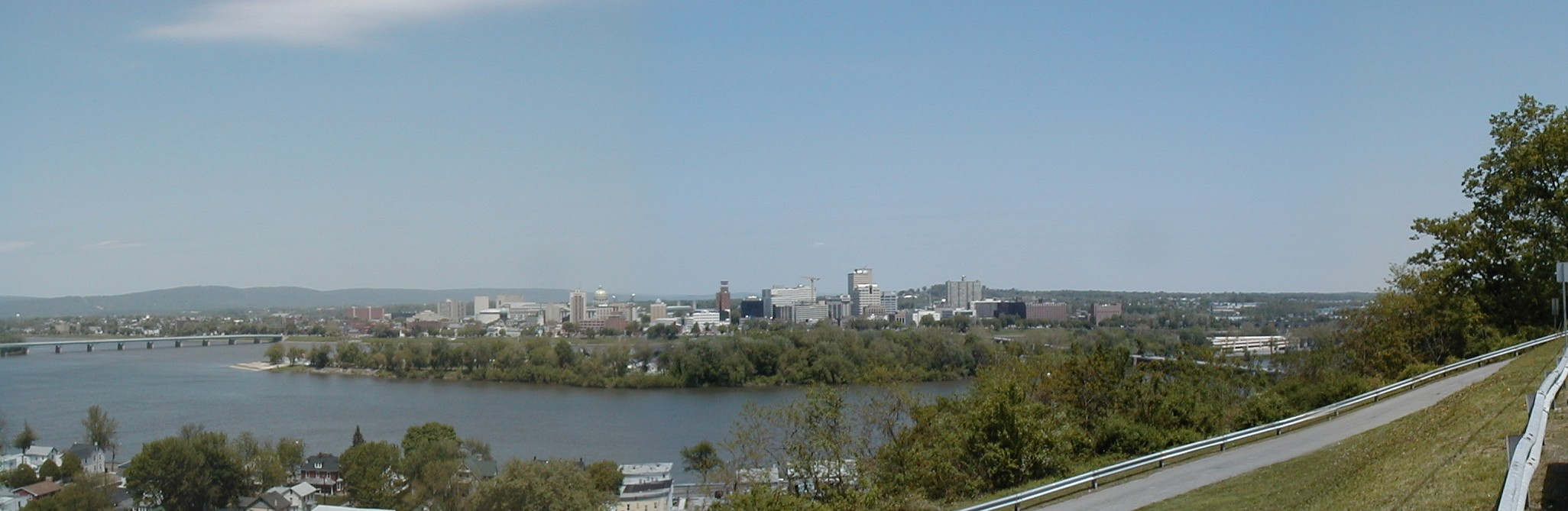 A panorama showing Harrisburg, Pennsylvania, and City Island, on the Susquehanna River. Photograph taken from Negley Park in Lemoyne.